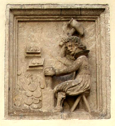 Detail from a wall, Rostock, old relief, coinage